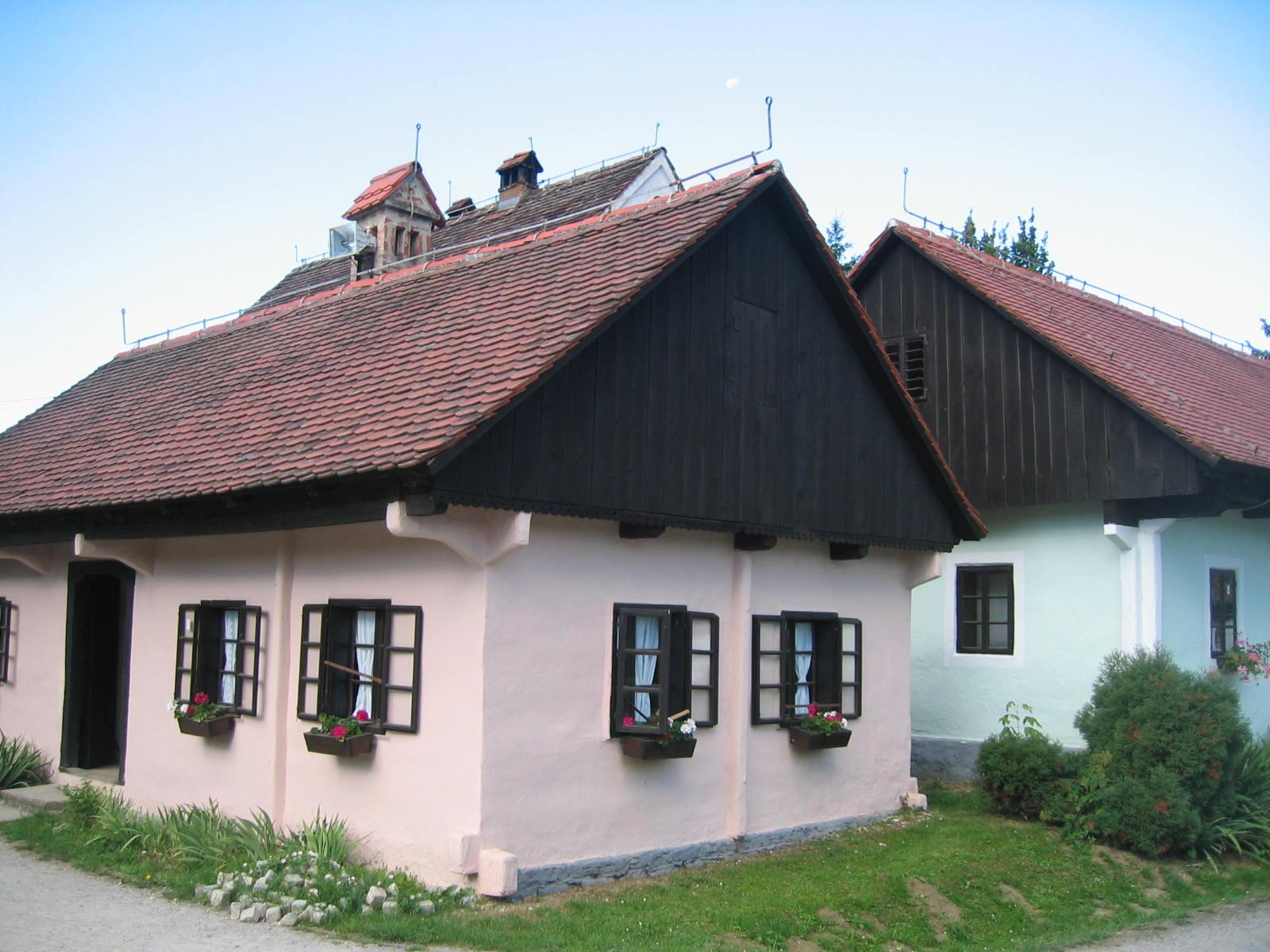 Kumrovec, Croatian village, birthplace of Josip Broz Tito (village houses park) photo:Ziga 07:34, 13 August 2006 (UTC)